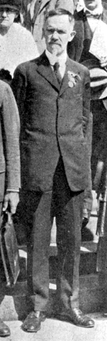 Charles Davenport, American biologist and eugenicist, at the Second International Congress of Eugenics, 1921.